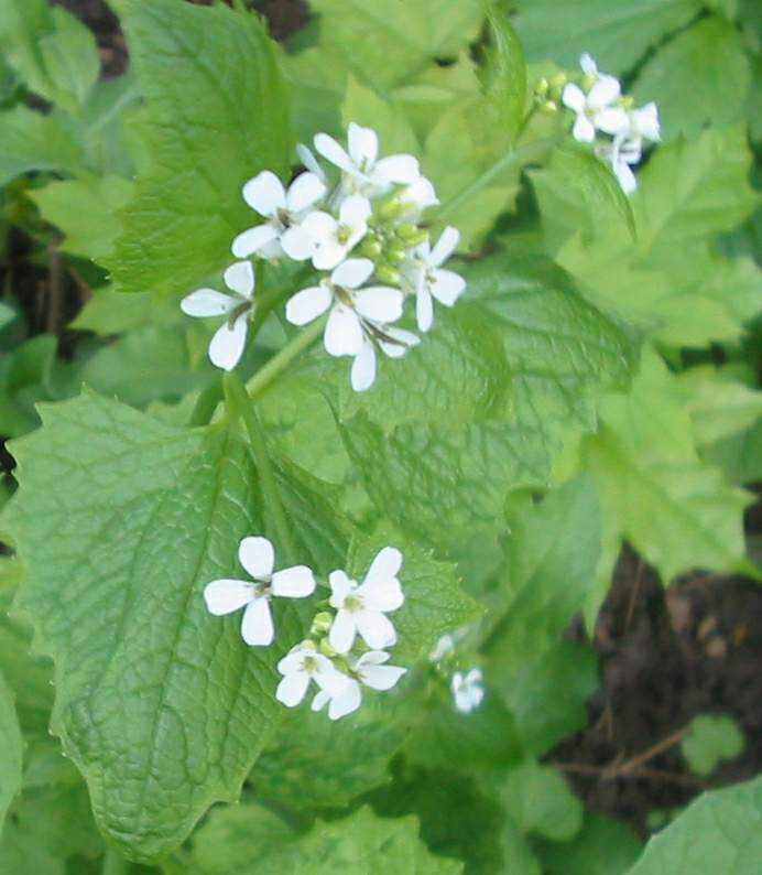 Garlic Mustard